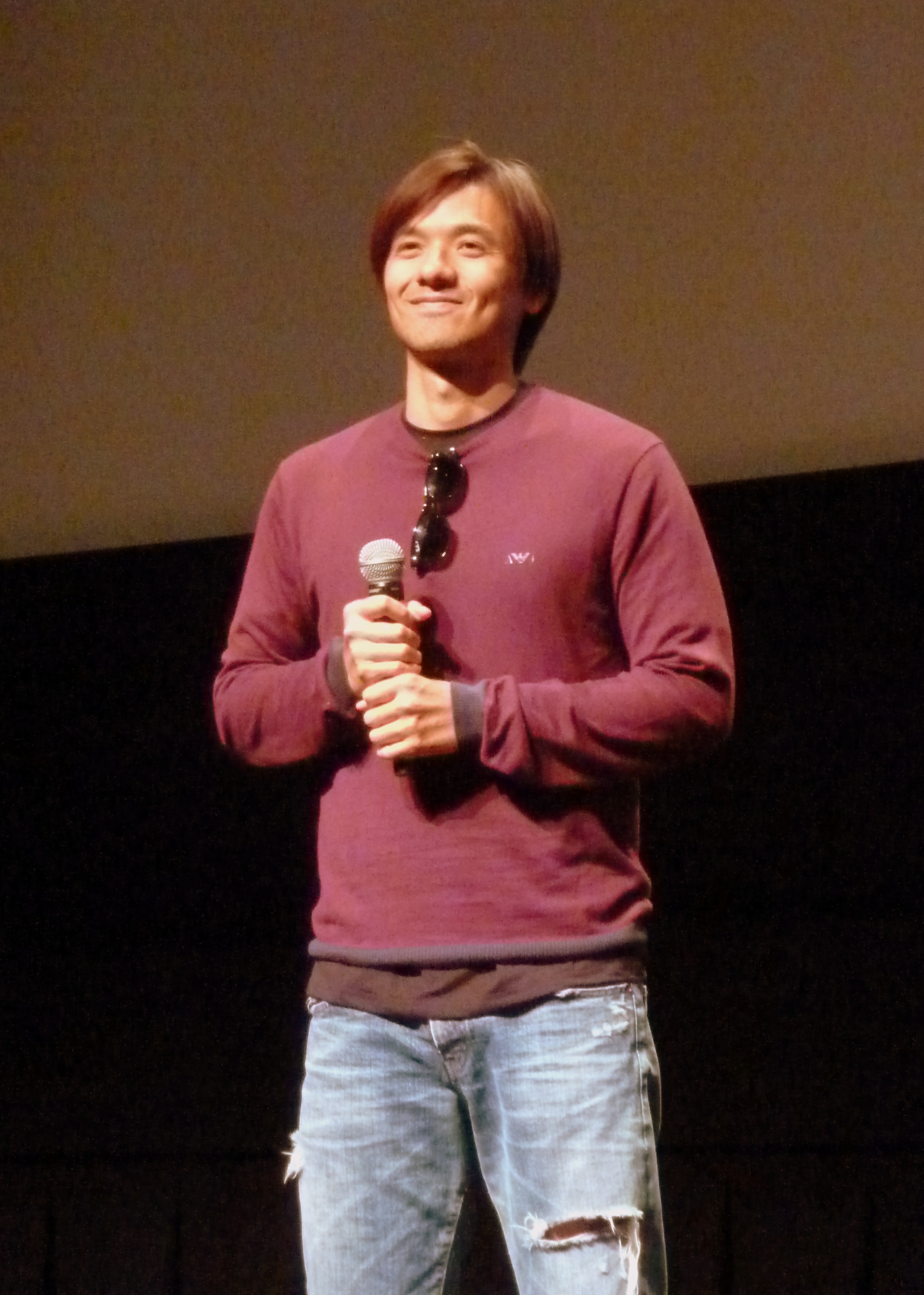 Stephen Fung Q&A at a screening for Tai Chi Zero, Toronto Film Festival 2012